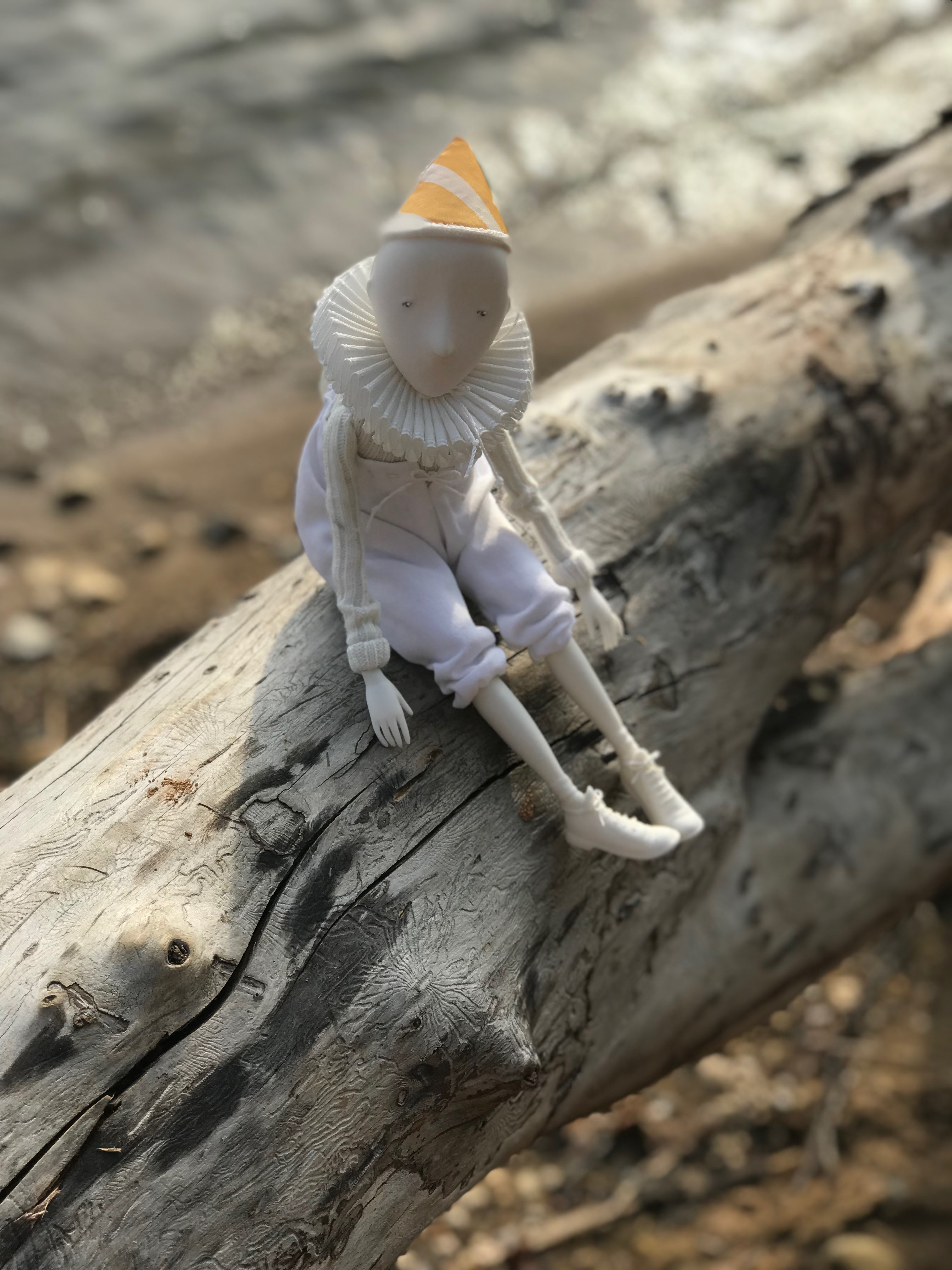 “The Princess coming...”project 5-th Europium Professional DollArt Festival,Riga,Latvia